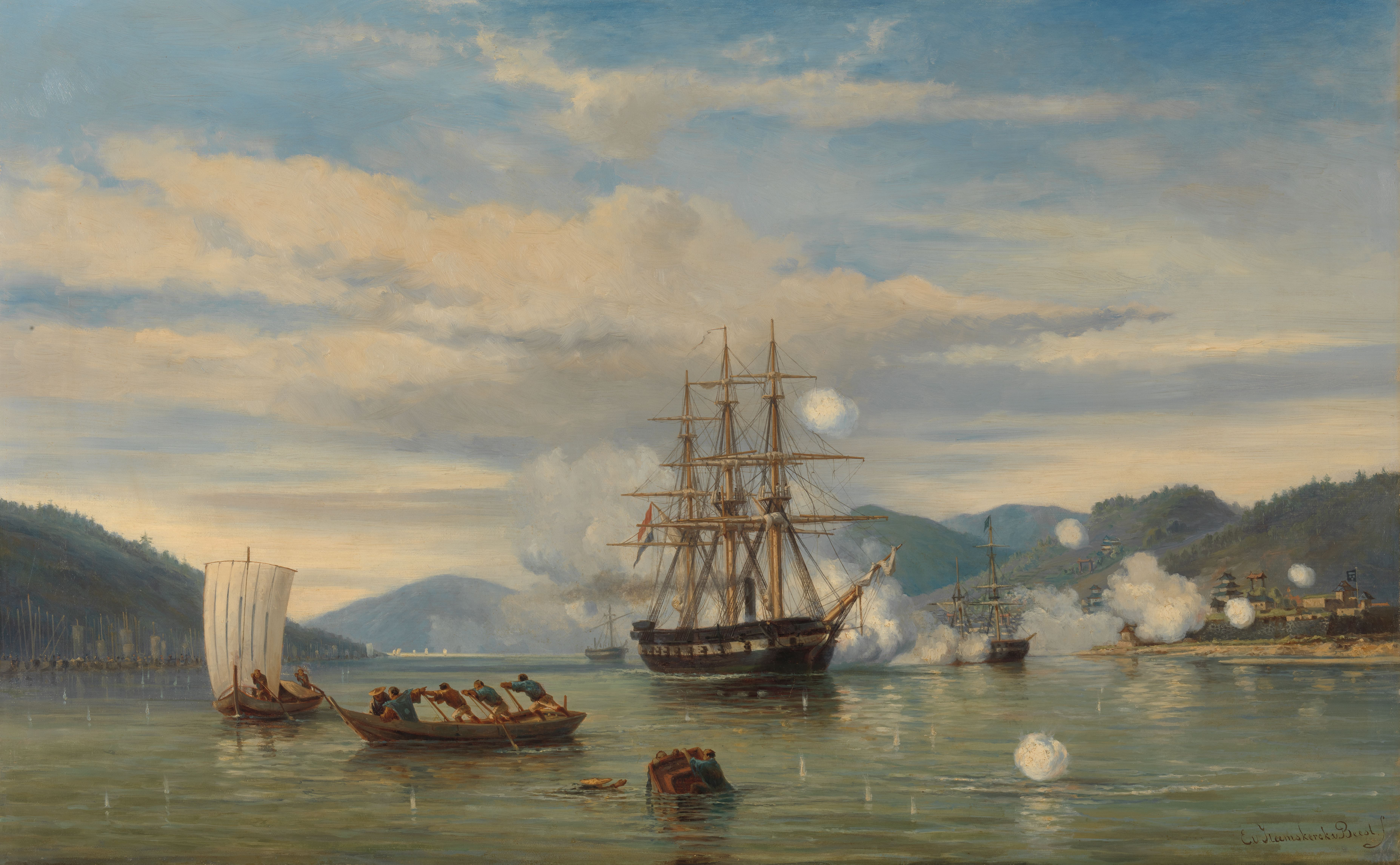 Z.M. Steamship 'Medusa' forces the passage through the Strait of Simonoseki between Kioe-Shioe and Hondo (Japan), September 1864. In the middle the ship being bombarded from fortresses on the shore. In the foreground a rowing boat and drowning people on driftwood; Jr. Jacob Eduard van Heemskerck van Beest (1828–1894), oil on canvas, 1864